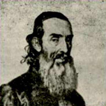 Alexandru Dobru(1794–1870), Bishop of the Diocese of Lugoj of the Romanian Greek Catholic Church from 1854 to 1870.